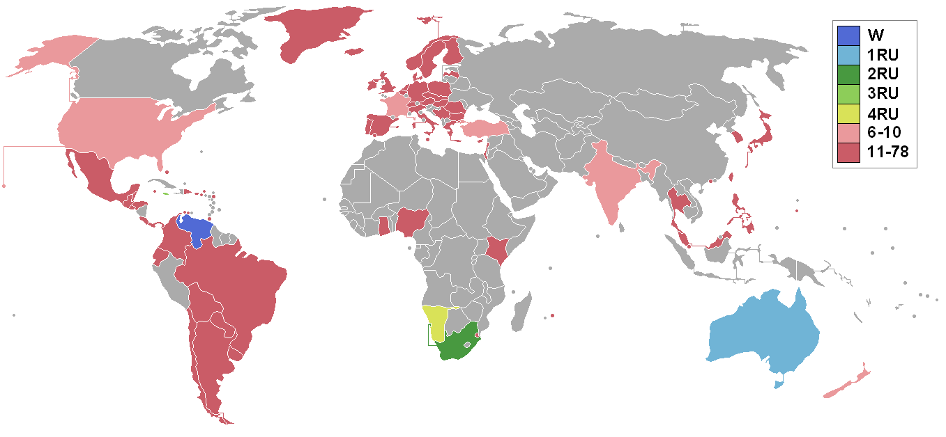 image by Joey80